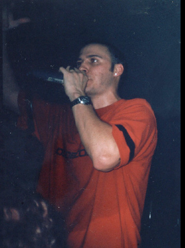 David Gilaberte (a.k.a. Lirico) is a member of Violadores del verso, a Spanish hip-hop band. The picture was taken in Lugo (Spain) (2002).